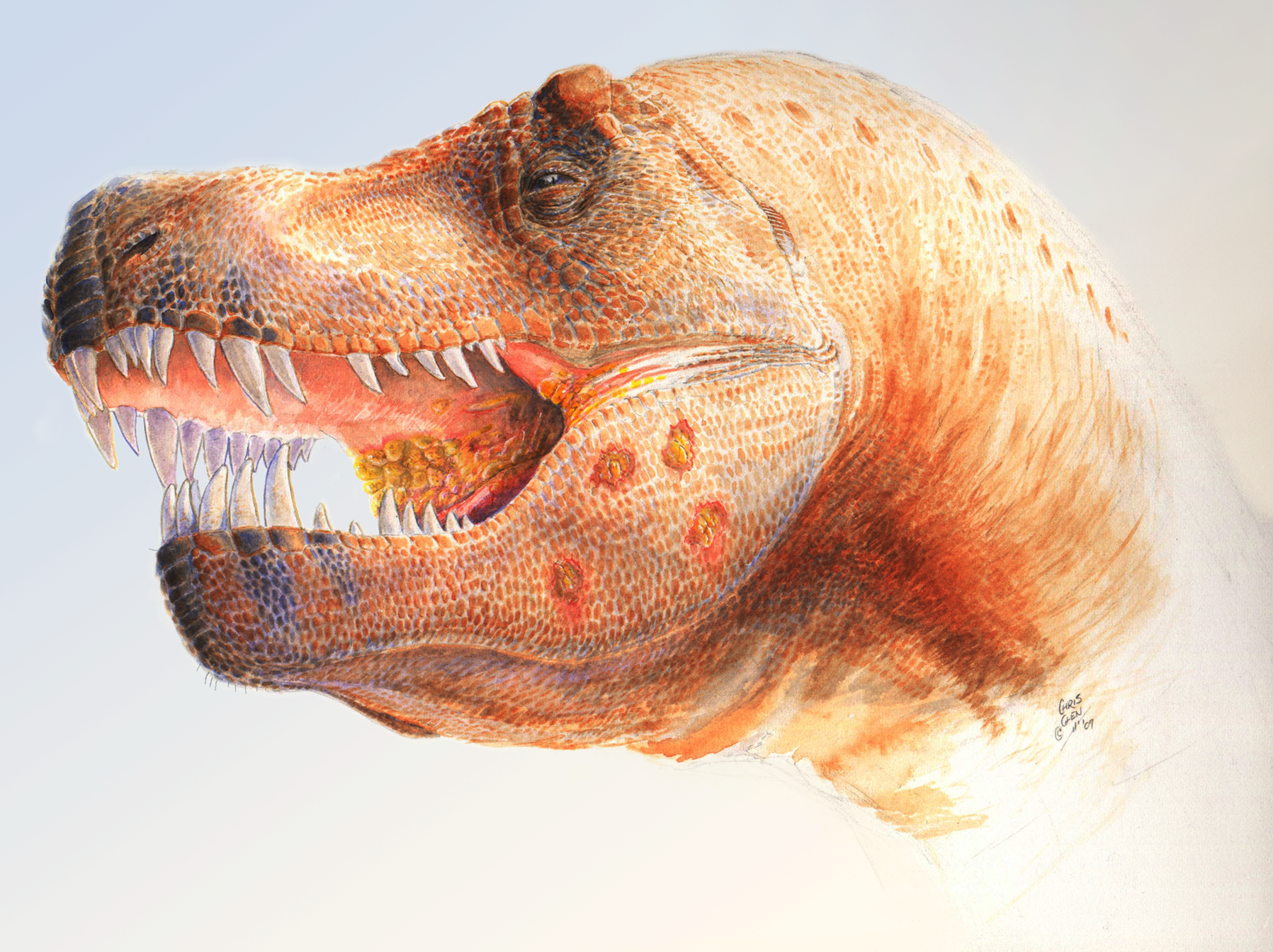 Hypothesized reconstruction of the Trichomonas-like infection of the oropharynx and mandible of MOR 980, commonly known as 'Peck's Rex'.